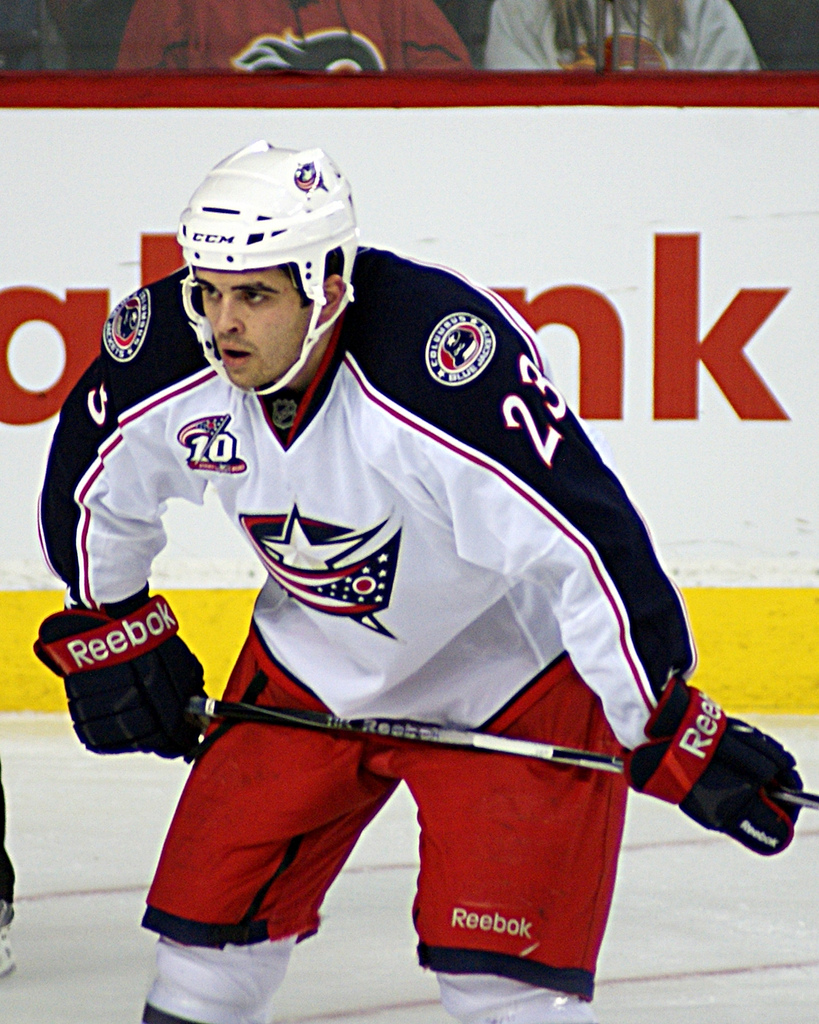 Tom Sestito, born September 28, 1987 in Rome, New York, is an American hockey player currently with the Columbus Blue Jackets of the National Hockey League. This NHL game action photo was taken December 13, 2010 at the Scotiabank Saddledome in Calgary, Alberta.